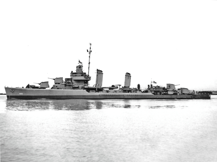 Broadside view of USS McLanahan (DD-615) off the Mare Island Naval Shipyard, California (USA), on 5 February 1943. She was under repair at the yard from 25 January to 5 February 1943.